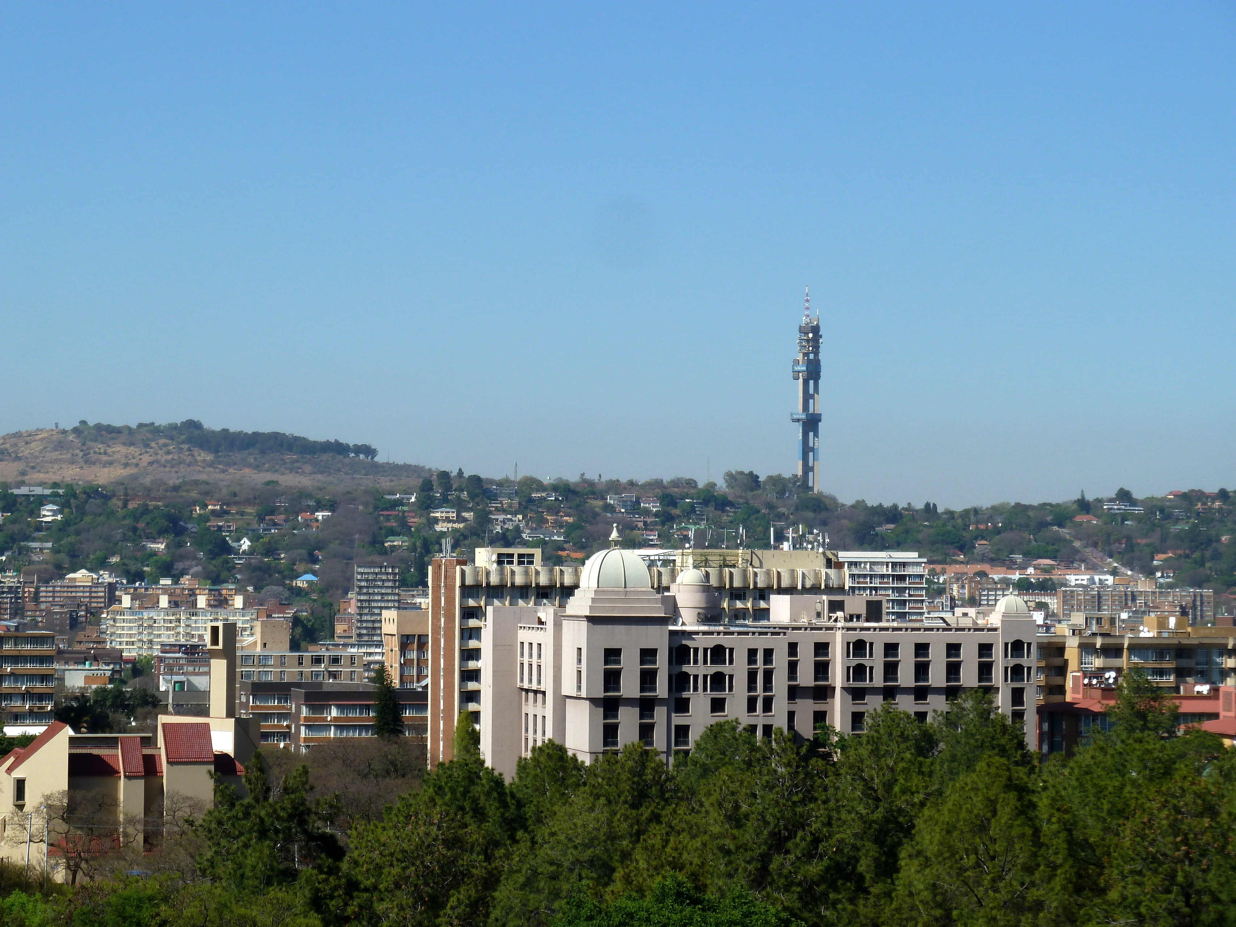 Sheraton hotel and Lukasrand Tower behind, central Pretoria, South Africa